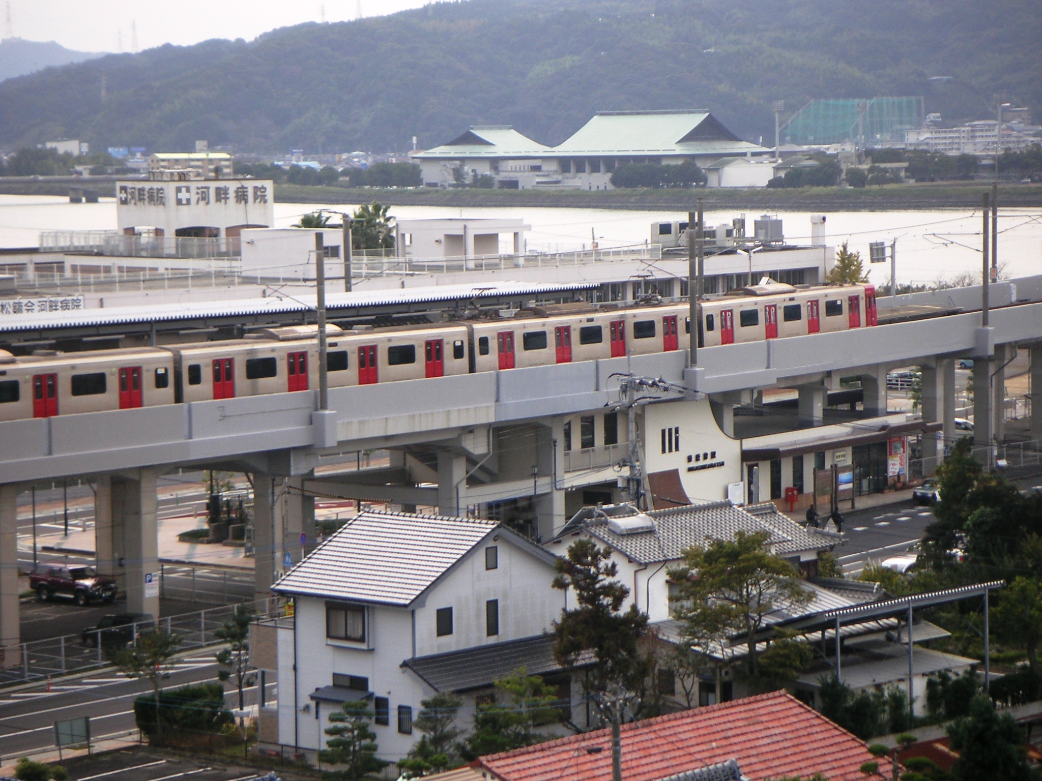 Higashikaratsu Station